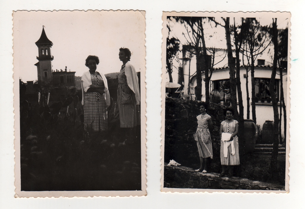 Villa Catalonia, residence in exile Josep Irla in Cogolin, Lola Aymerich and a daughter of Nicolau Irla, possibly Montserrat